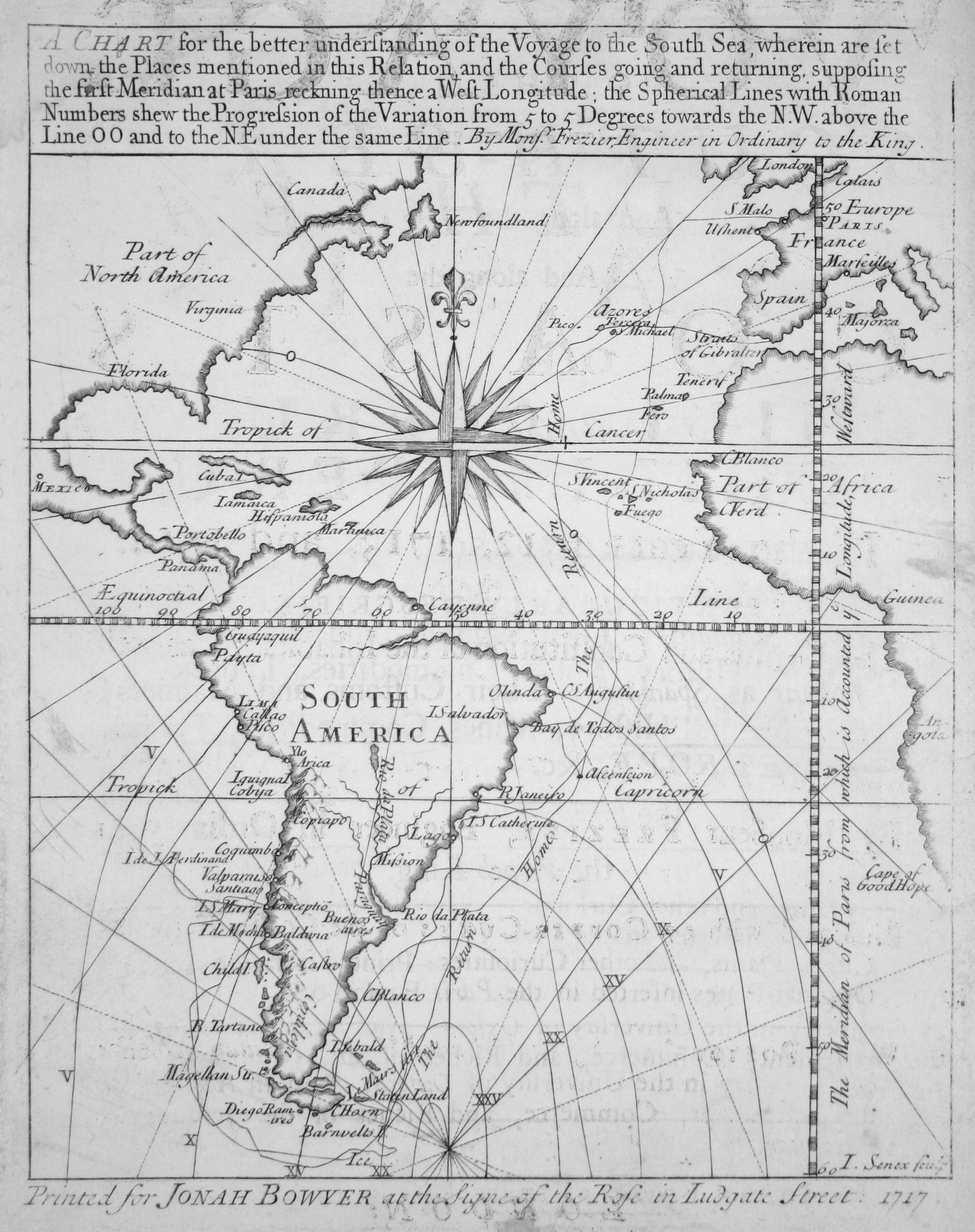 map first page